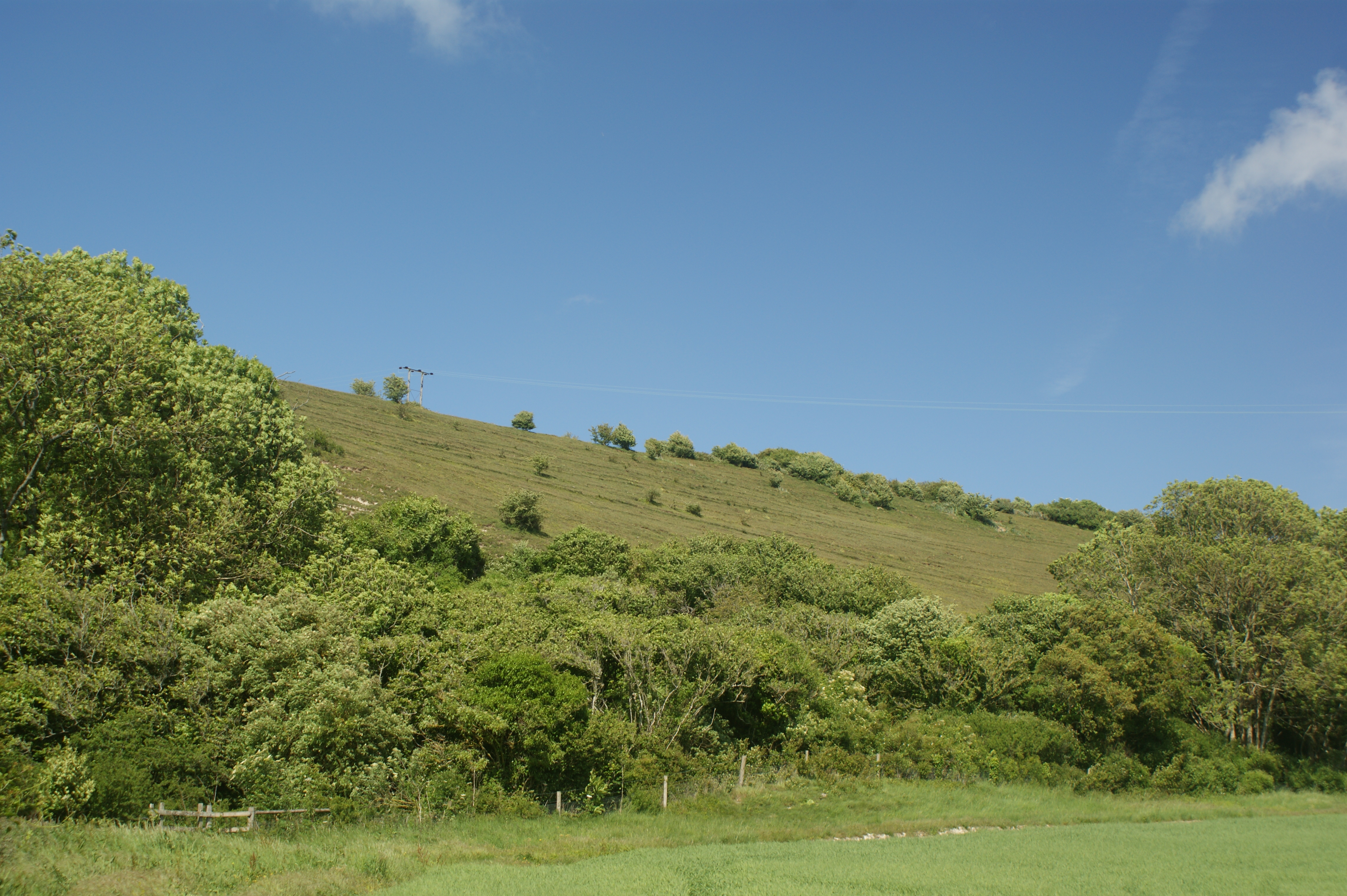 Arreton Down, Arreton, Isle of Wight. In this photo it is seen from the bottom.